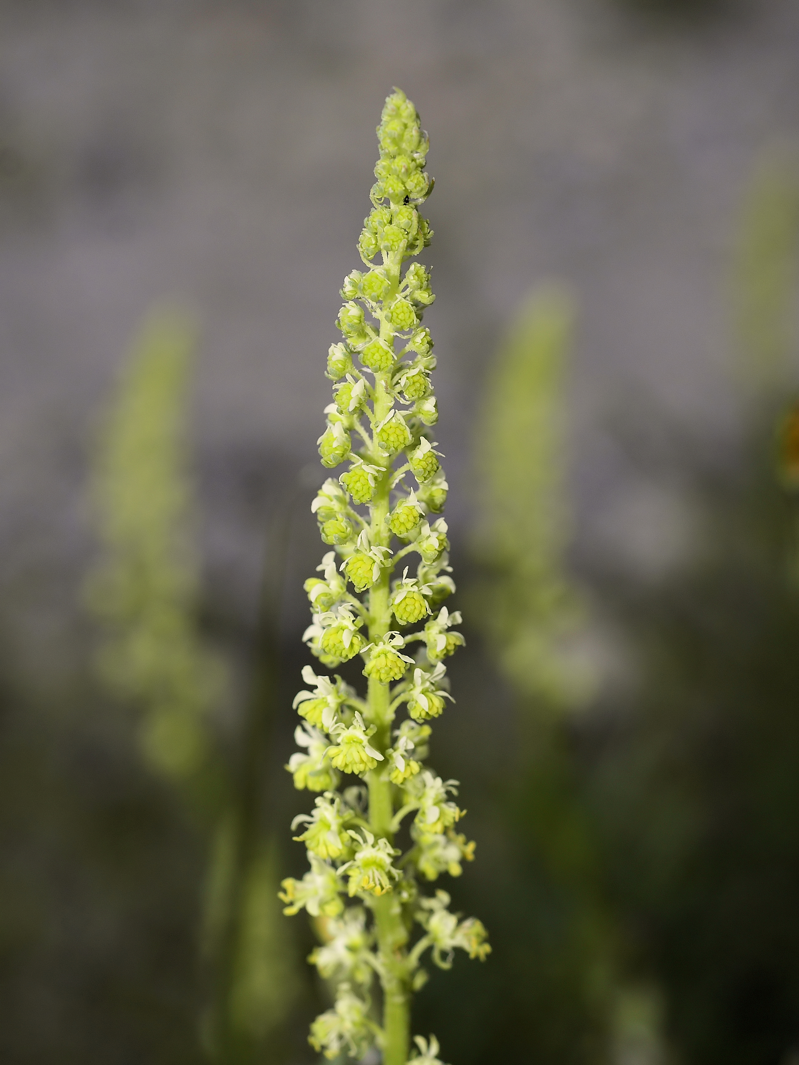 Wild mignonette close to el Perelló, Catalonia, Spain